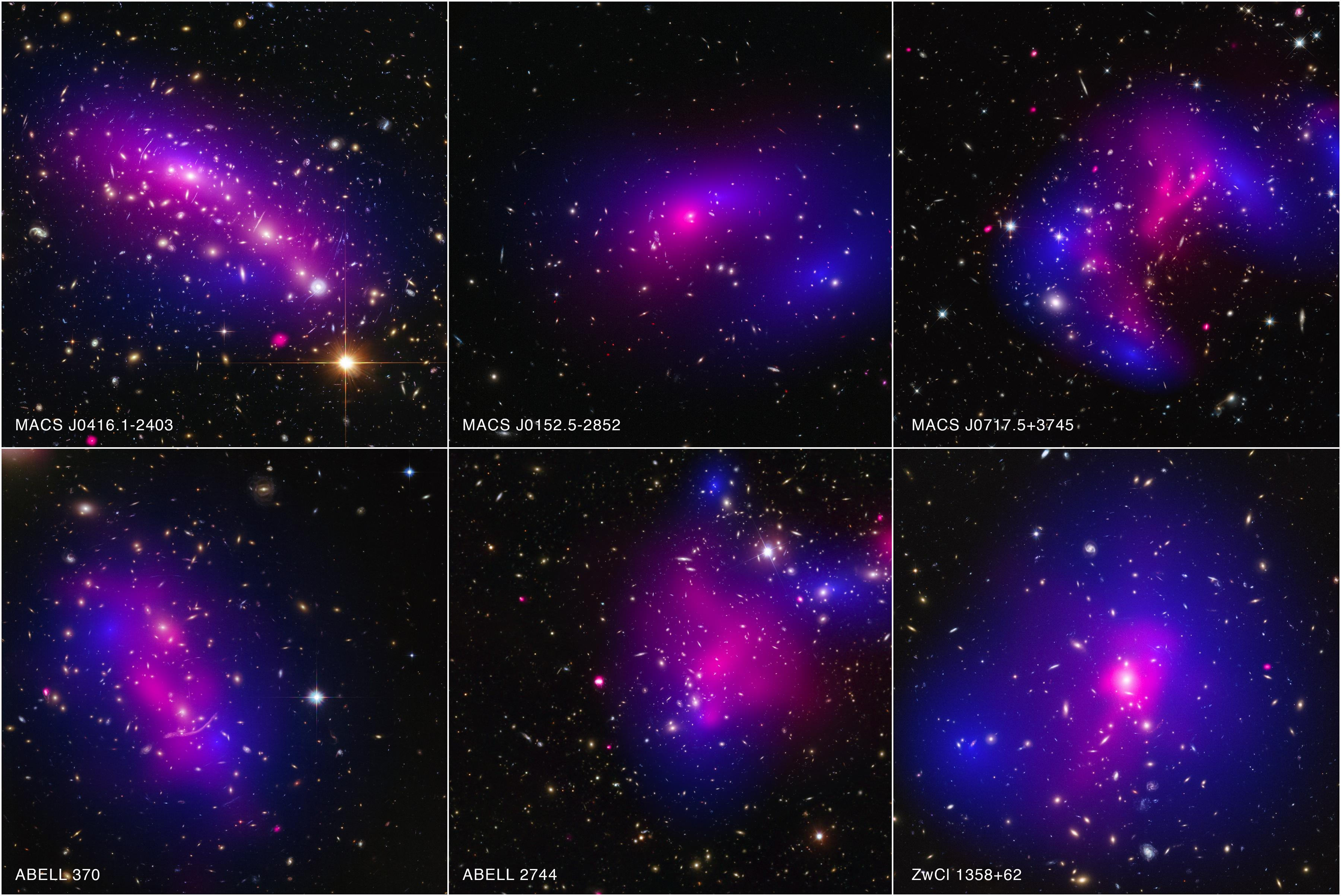 These galaxy clusters are part of a large study using Chandra and Hubble that sets new limits on how dark matter - the mysterious substance that makes up most of the matter in the Universe - interacts with itself. The hot gas that envelopes the clusters glows brightly in X-rays detected by Chandra (pink). When combined with Hubble's visible light data, astronomers can map where the stars and hot gas are after the collision, as well as the inferred distribution of dark matter (blue) through the effect of gravitational lensing.